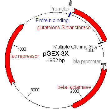 Plasmid map of the pGEX-3X cloning vector.